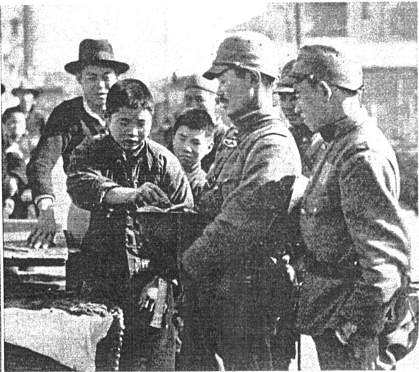 Japanese soldiers shopping in a town of Nanking (December 17, 1937)